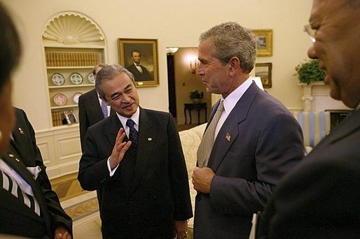 President George W. Bush and Prime Minister Abdullah Badawi of Malaysia meet in the Oval Office Monday, July 19, 2004. Also pictured are National Security Advisor Dr. Condoleezza Rice, left and Secretary of State Colin Powell.